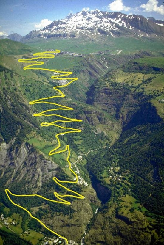 View of the L'alpe d'Huez serpentines.